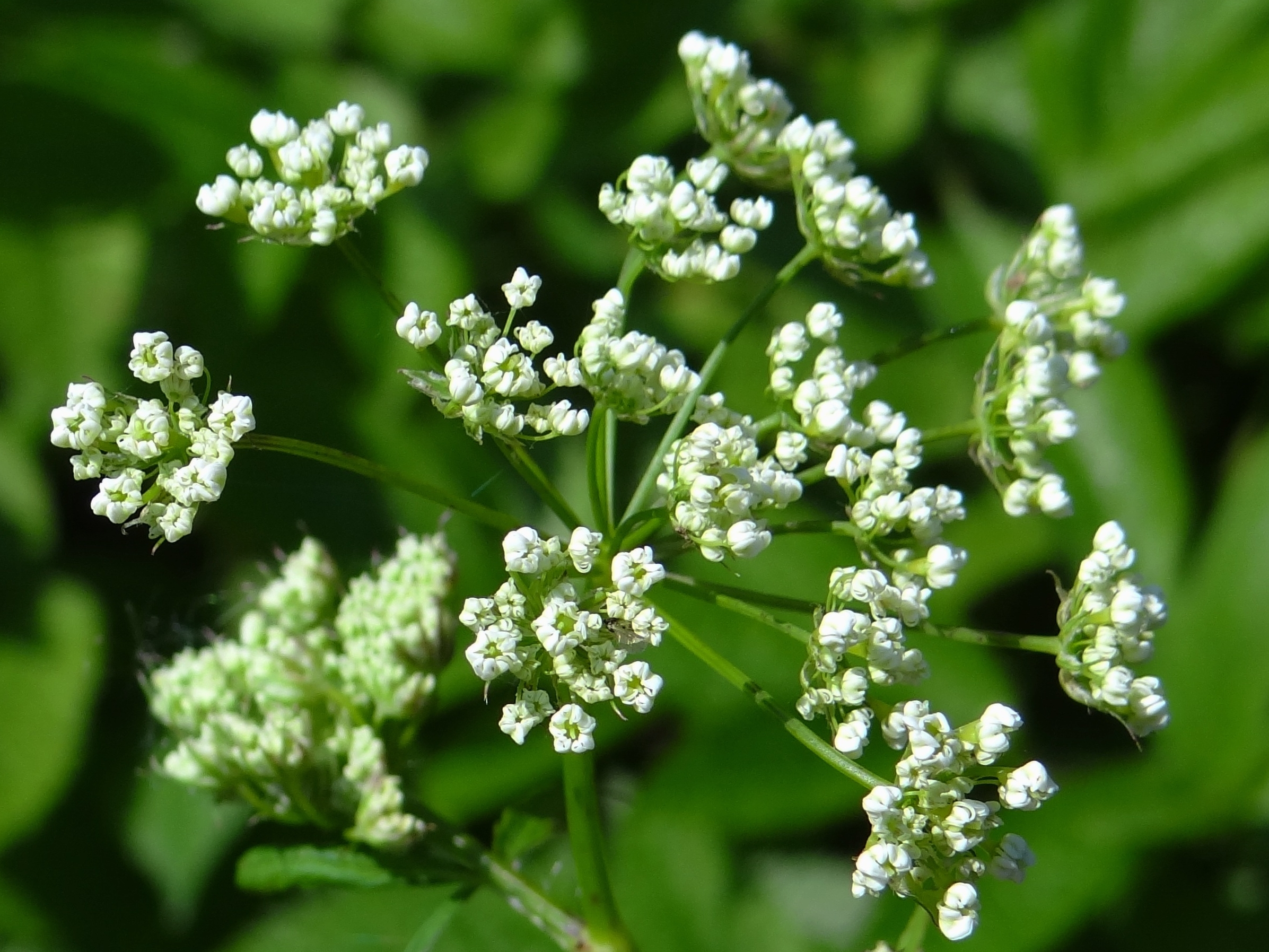 Chaerophyllum aromaticum (location:Botanical Garden in Cracow)